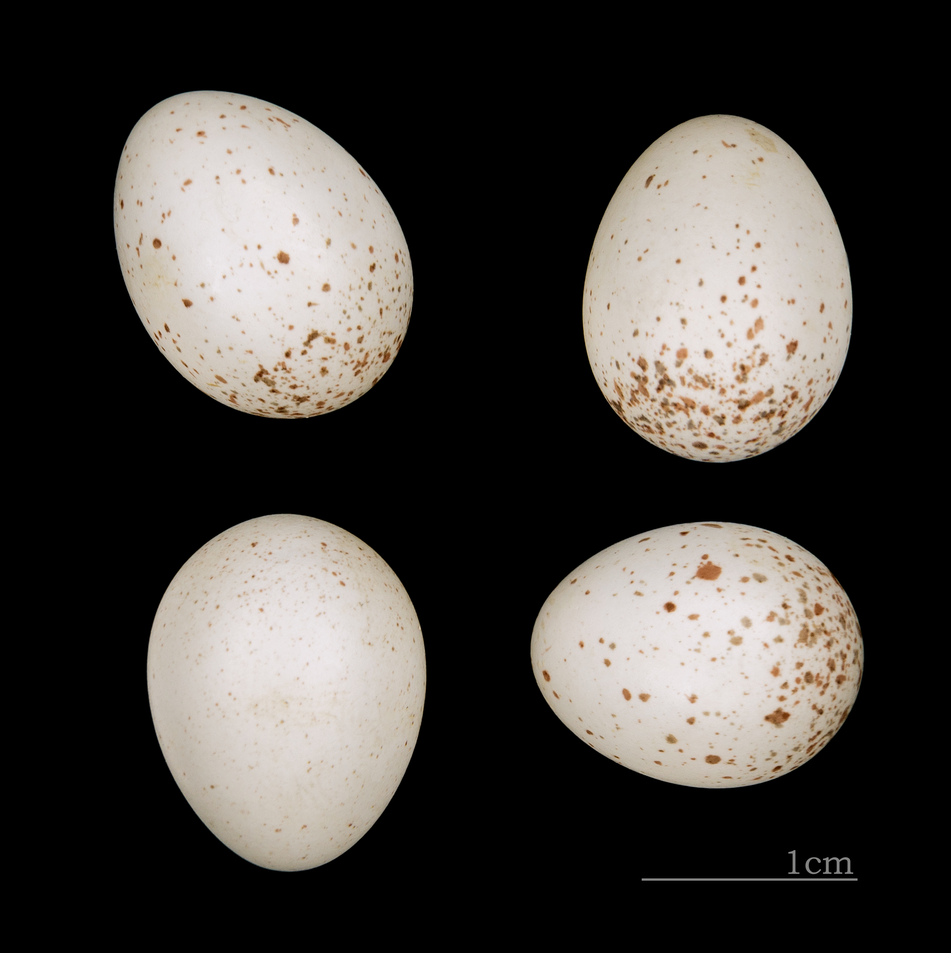 Egg of Eurasian Wren. Collection of Jacques Perrin de Brichambaut.